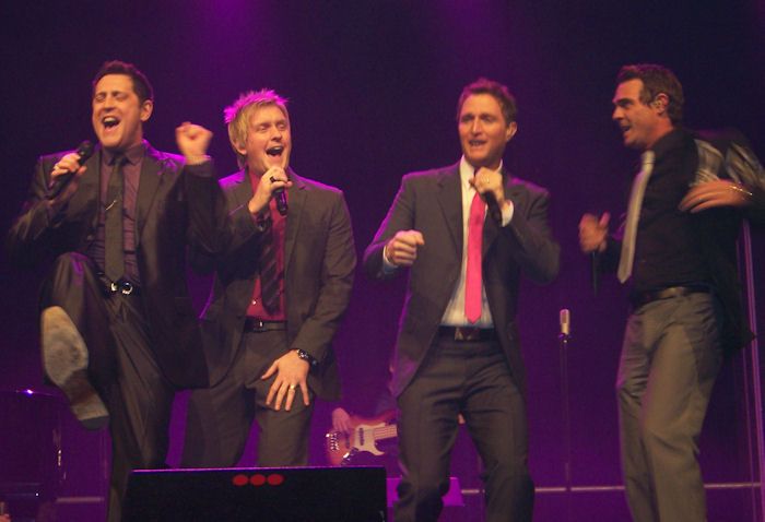 Ernie Haase & Signature Sound at a concert in Apeldoorn (NL)